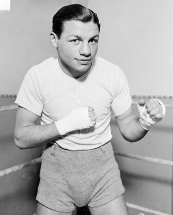 "Three-quarter length portrait of pugilist Tony Canzoneri standing in a boxing stance in a corner of a boxing ring in a room in Chicago, Illinois, light exposure. Text on image reads: Tony Cansonzeri."